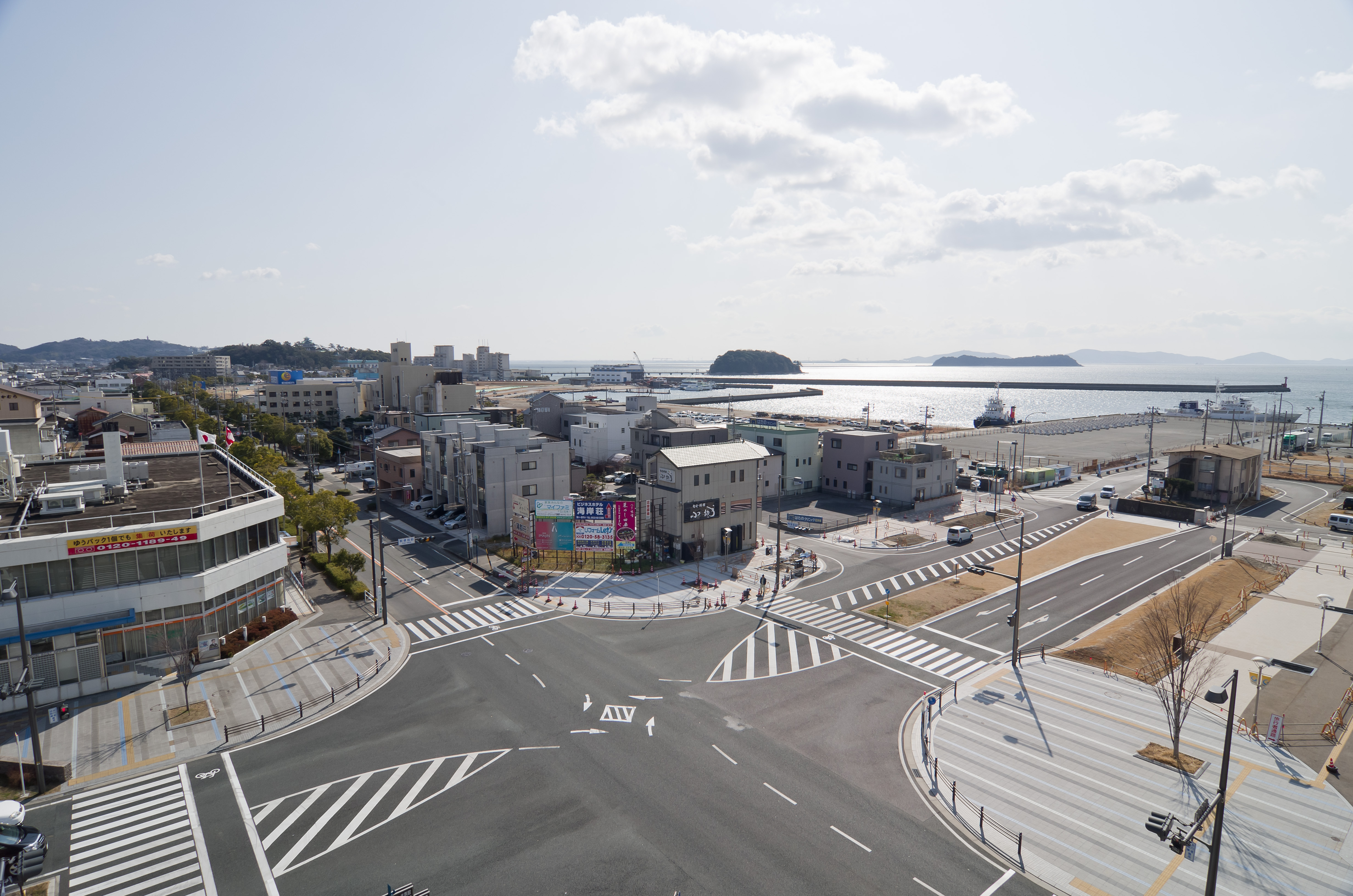 Gamagori City Minato-machi and Port of Gamagori